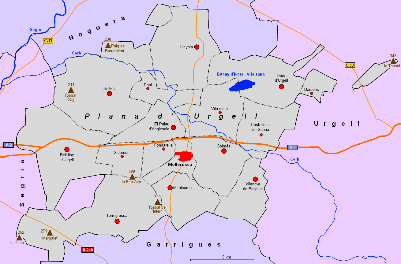 Map of the comarca Pla d’Urgell, Catalonia, Spain